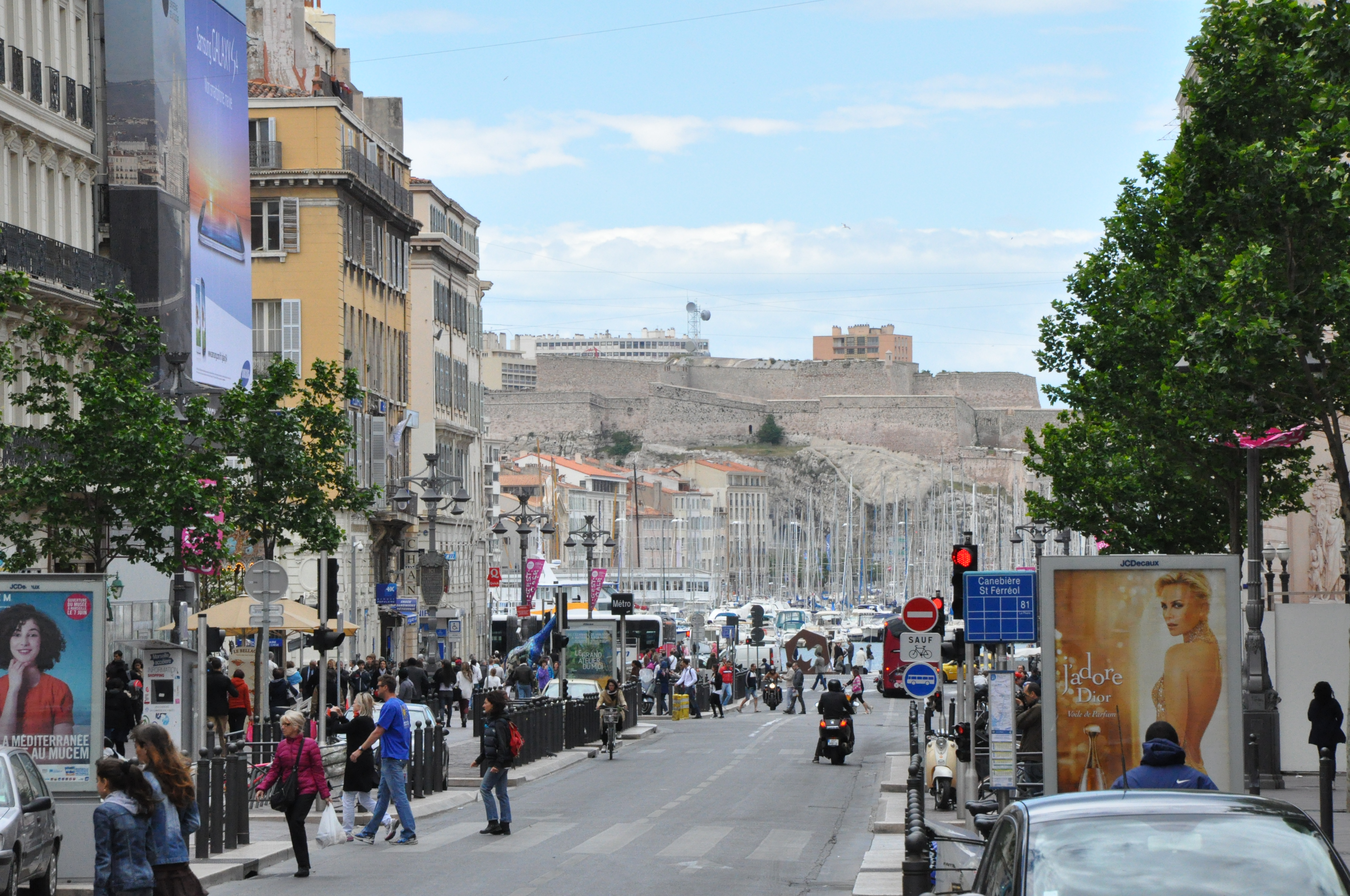 La Canebière, between quarters Opéra (left part of the image) and Hôtel-de-Ville (right part of image) in the 1st Arrondissement, Marseille, Provence, France. Seen from the intersection with Cours Saint-Louis (to the right) and Cours Belsunce (to the left), in direction of Vieux-Port, then Fort Ganteaume which borders it to the south-west. In the background, the Saint-Nicolas Fort (in quarter of Pharo) dominates the west of the Vieux-Port and to the south-east the quarter of Saint-Victor (unvisible, to the left of this image).